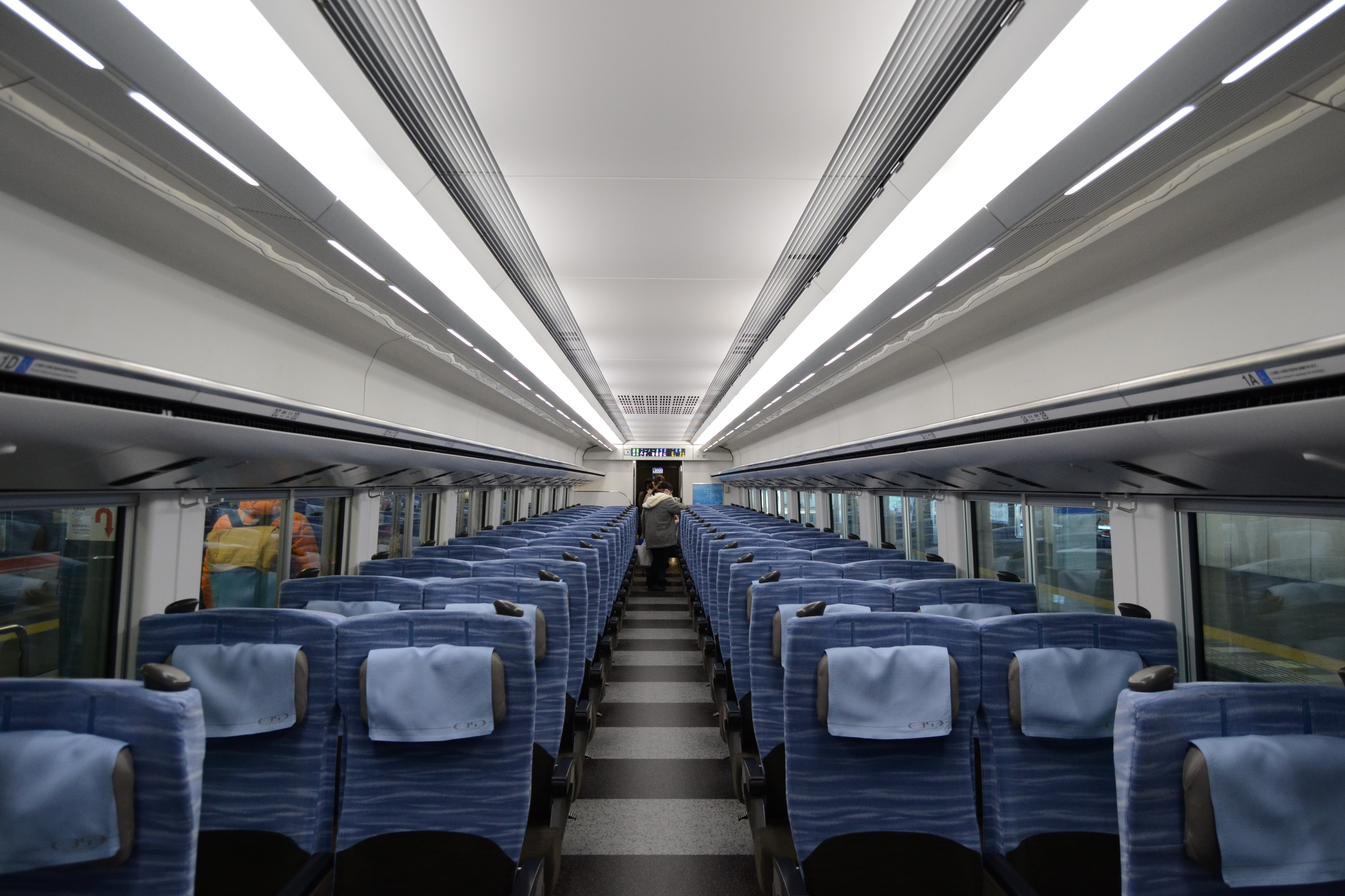 The interior of a JR East E353 series EMU ordinary-class car